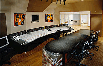 A Picture of the 9000 Studio at PatchWerk Recording Studios in Atlanta, GA.